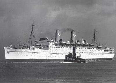 Canadian Pacific ocean liner, SS "Empress of France" 1914 Built by Beardmore, Dalmuir, United Kingdom Yard No: 509 Launch Date: 22.3.13 Date of completion: 1.14 Length overall: LPP: 174.2 Beam: 22.1 Tons: 18485 DWT: Speed: 18 kn 1914 Named Alsatian for Allan Line S.S.Co Ltd, Glasgow Flag: United Kingdom 1919 Sold, renamed Empress of France Flag Canada 24.11.34 Broken up in Dalmuir